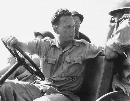 Yigal Allon during the 1948 Arab-Israeli War. This work or image is now in the public domain because its term of copyright has expired in Israel. According to Israel's copyright statute from 2007 (translation), a work is released to the public domain on 1 January of the 71st year after the author's death (paragraph 38 of the 2007 statute) with the following exceptions: A photograph taken on 24 May 2008 or earlier — the old British Mandate act applies, i.e. on 1 January of the 51st year after the creation of the photograph (paragraph 78(i) of the 2007 statute, and paragraph 21 of the old British Mandate act). If the copyrights are owned by the State, not acquired from a private person, and there is no special agreement between the State and the author — on 1 January of the 51st year after the creation of the work (paragraphs 36 and 42 in the 2007 statute). See also category: PD Israel & British Mandate. .